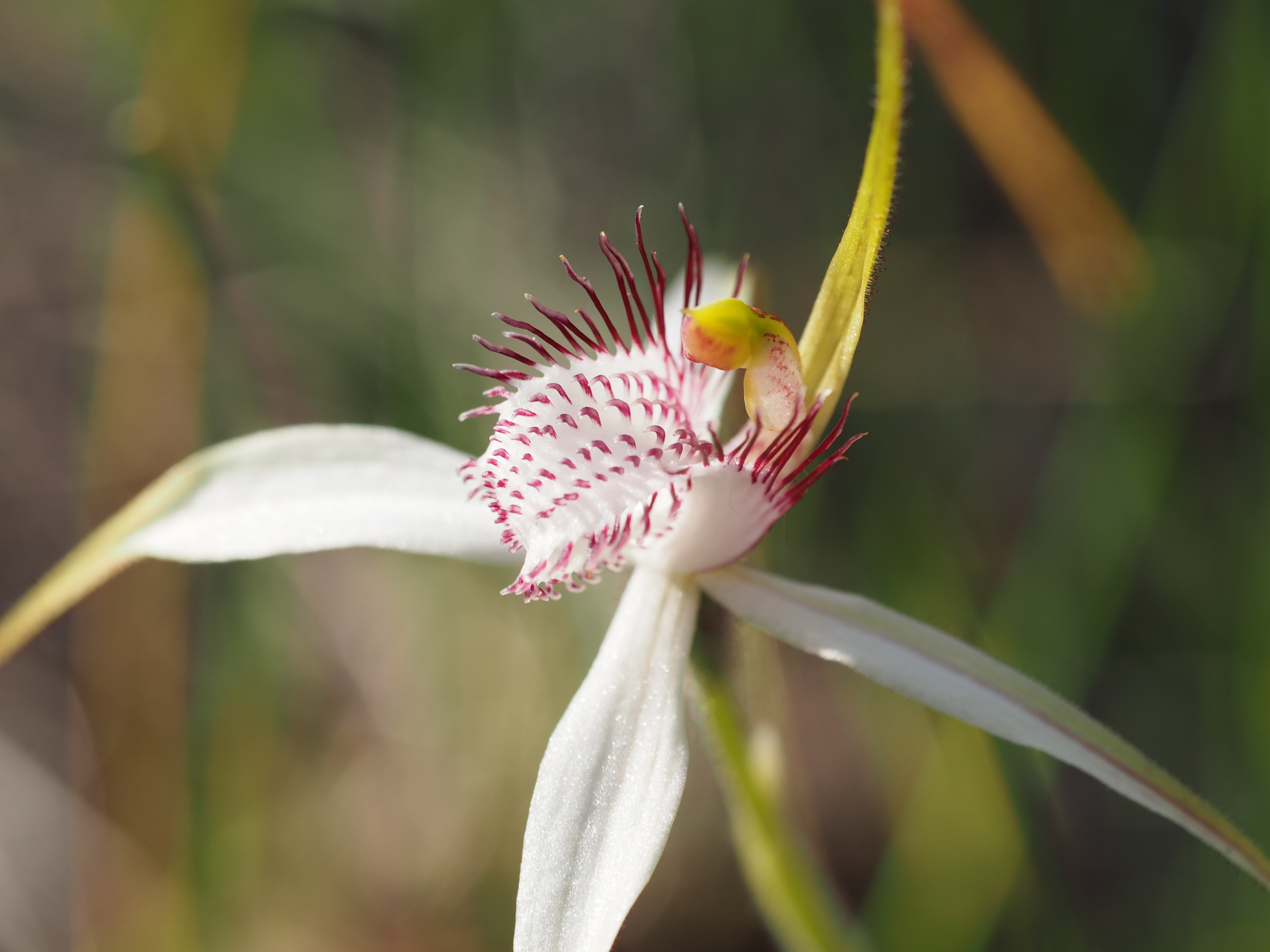 Caladenia longicause subsp. eminens growing near Moora in Western Australia